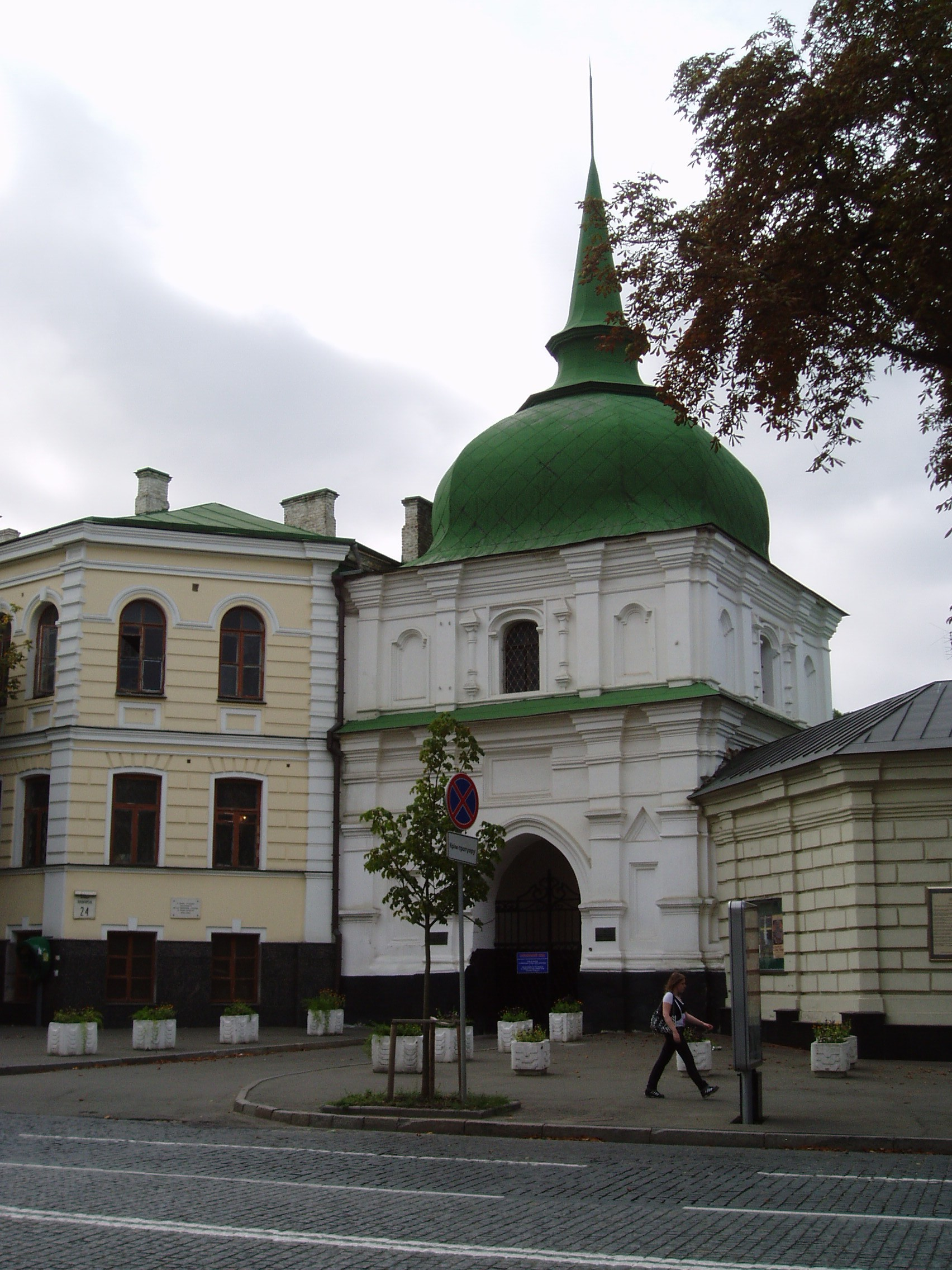 Southern tower of Saint Sophia Cathedral in Kyiv, Ukraine